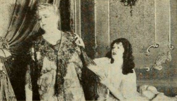 Still from the American drama film Rose o' the Sea (1922) with Kate Lester and Anita Stewart, on page 64 of the August 1922 Photoplay.